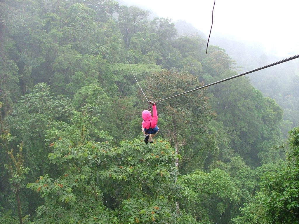 A zip-line over the rainforest canopy. Taken January 4, 2005 in Costa Rica at the Arenal Paraiso Hotel's zip-line course. This course requires self-braking using a special purpose-built reinforced leather glove Photo taken by Ken Haufle.